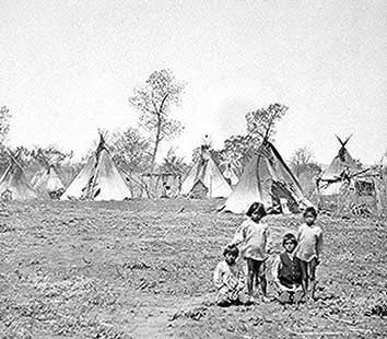 A Wichita camp. Photographed by Henry Peabody, ca. 1904.